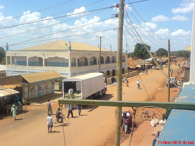 Masjidun Noor Jumma Mosque - Songea, Tanzania